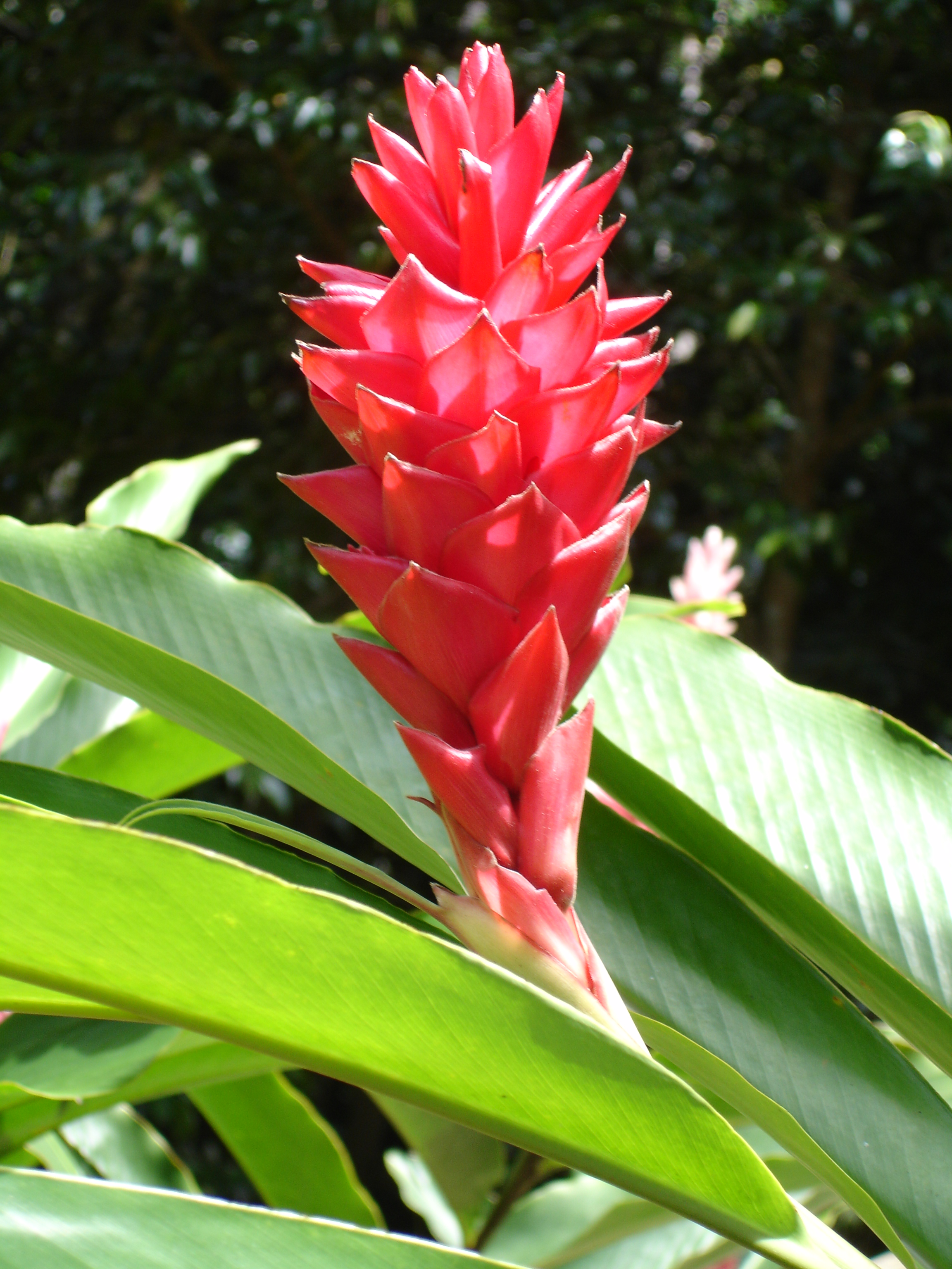 Fleur d'Alpinia / Alpinia Flower , Guadeloupe Picture by FabHawk